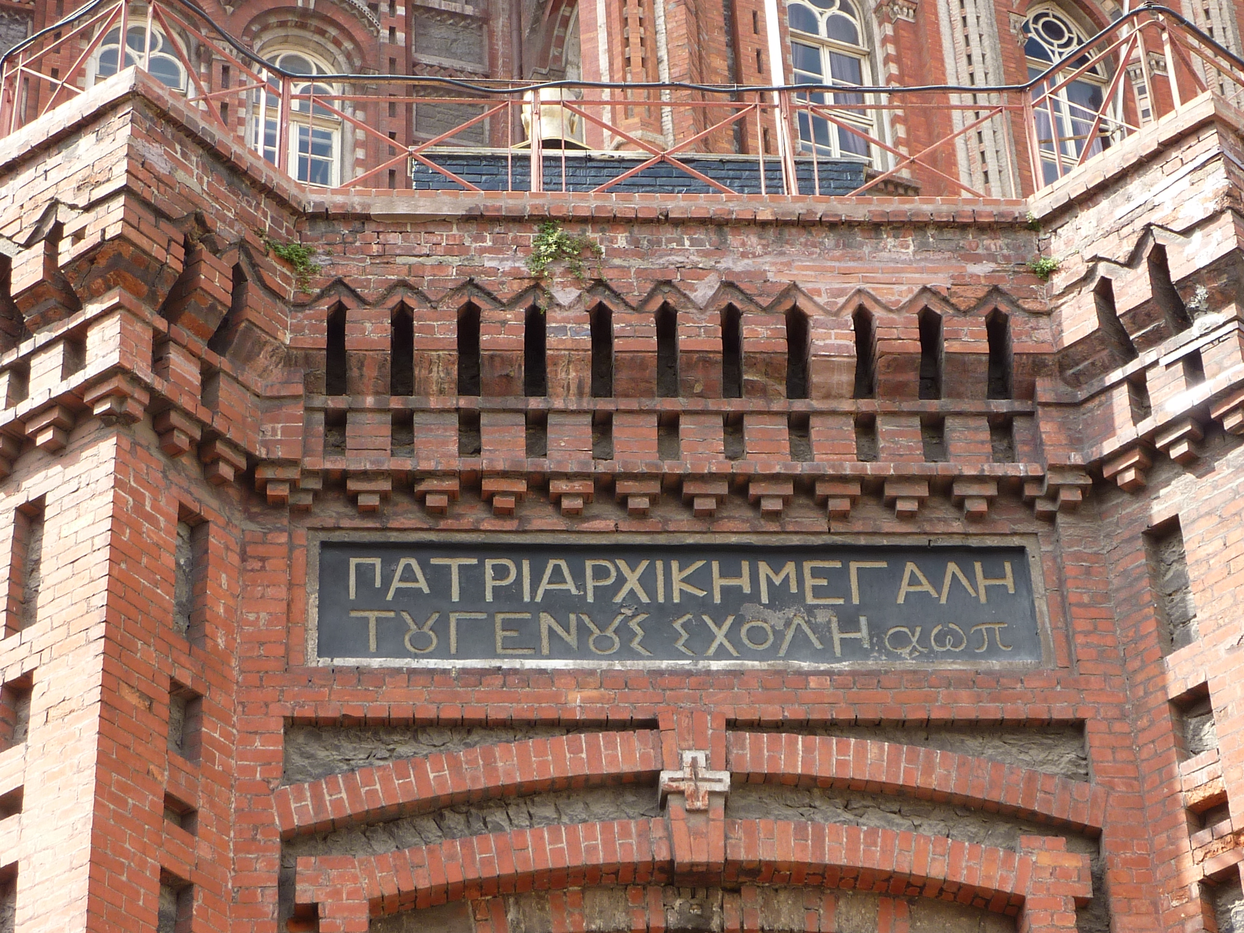 Phanar Greek Orthodox college